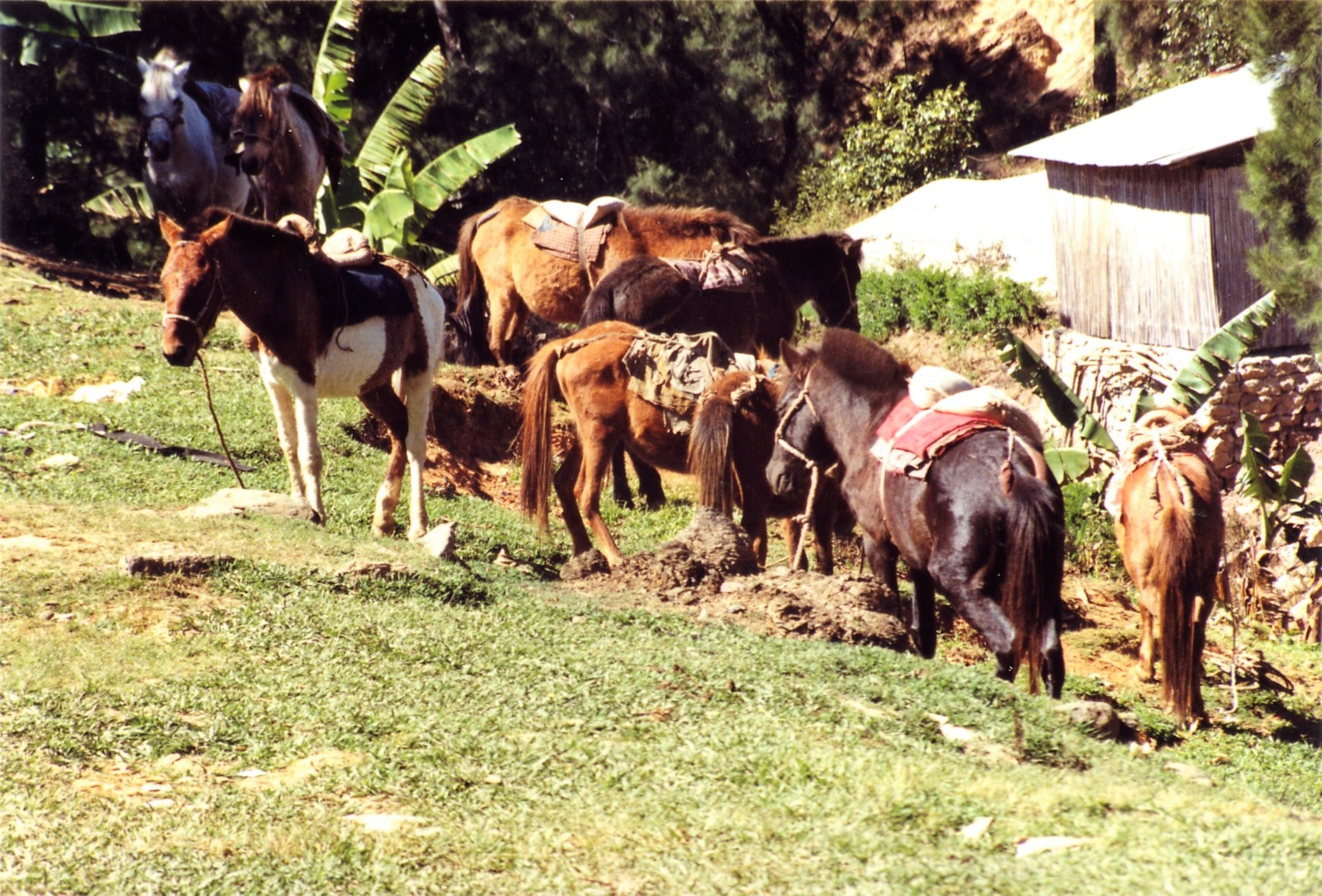 Photo by J. Patrick Fischer Horses in Maubisse/Timor-Leste on June 2002